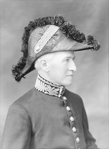 Arthur Lewis Sifton at the coronation of George V of the United Kingdom